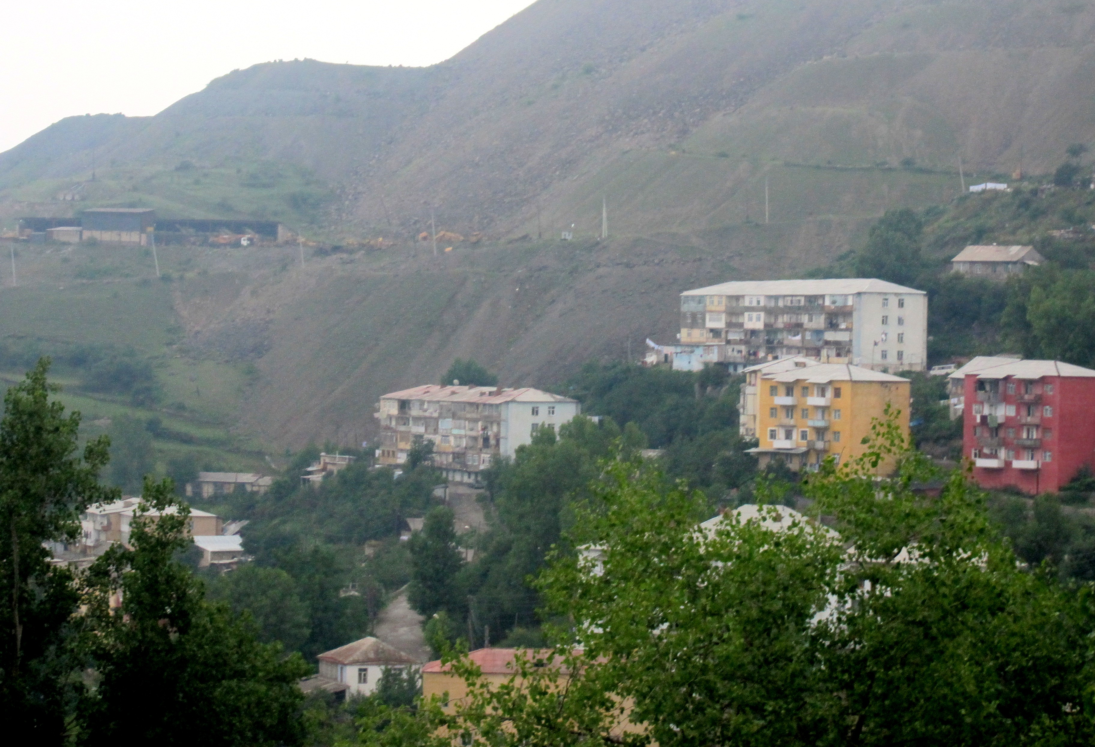 Dashkasan (Azerbaijani: Daşkəsən) is a city and municipality in and the capital of the Dashkasan Rayon of modern Azerbaijan.